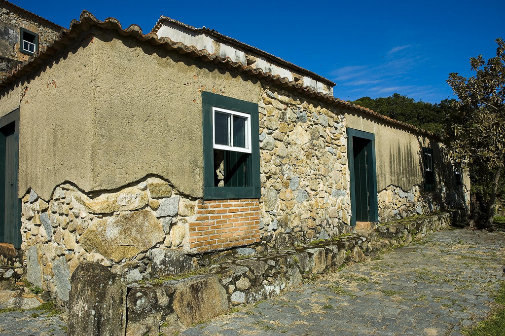 Colonial construction in Florianópolis, Santa Catarina.